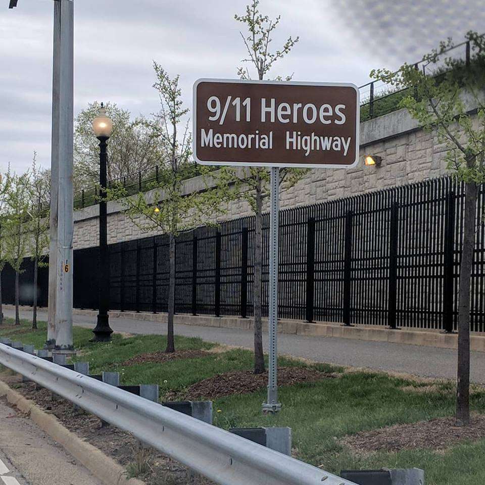 This sign commemorates a section of State Route 27 just southwest of the Pentagon as 9/11 Heroes Memorial Highway. The Pentagon Memorial lies on the other side of the fence and wall.